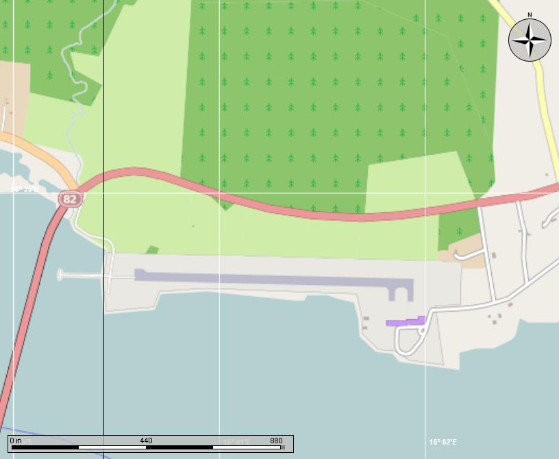 Open Street Map of the Stokmarknes Airport in Norway.